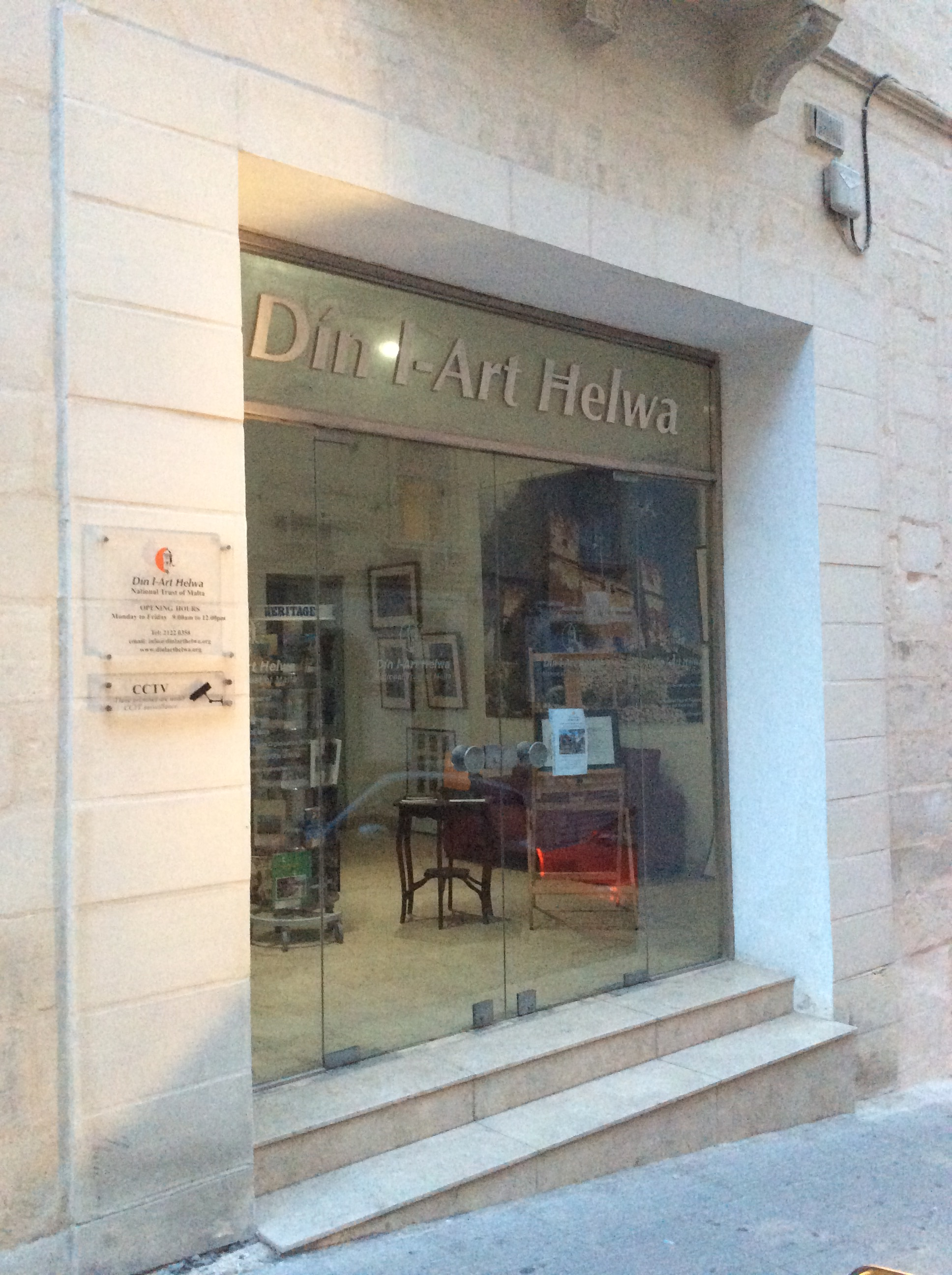 Din l-Art Ħelwa